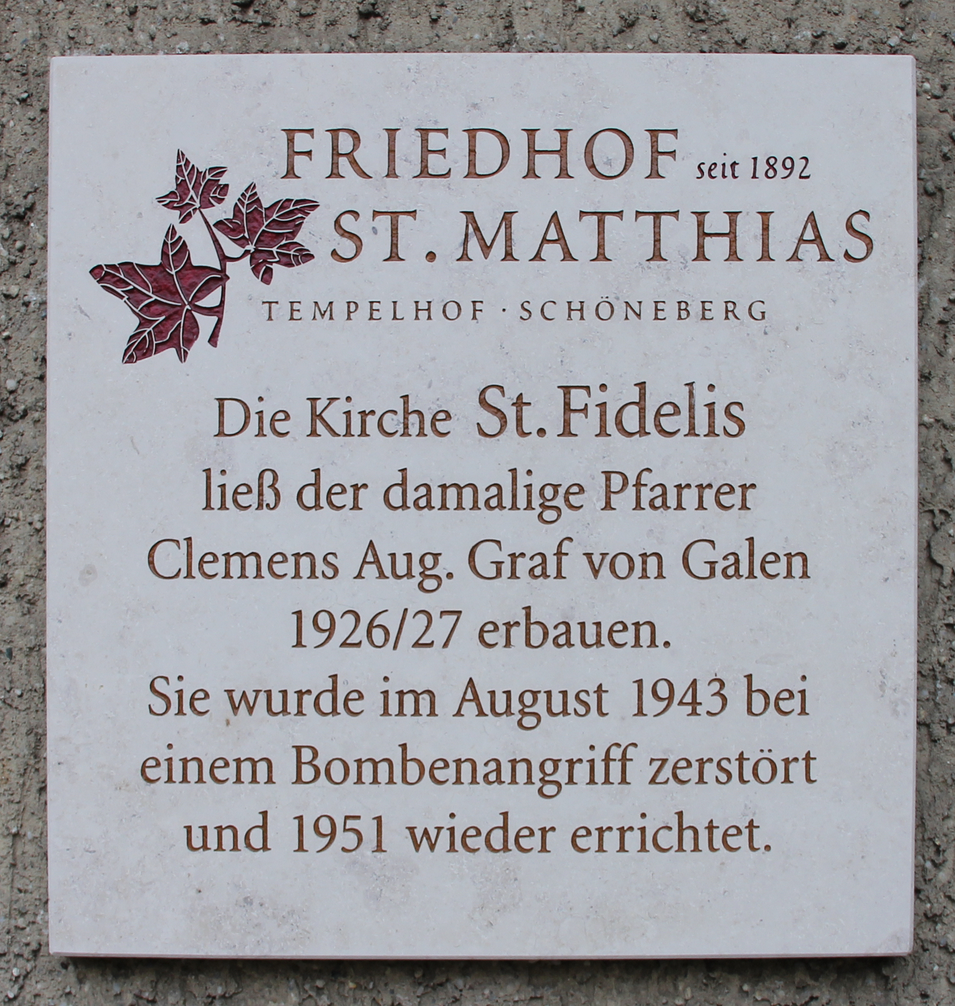 Memorial plaque, Kirche St. Fidelis, Röblingstraße 91, Berlin-Tempelhof, Germany